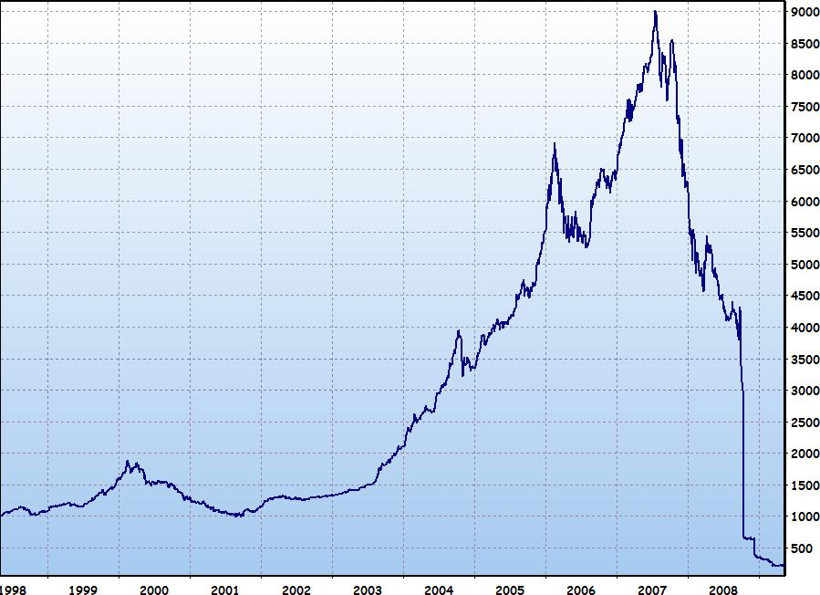 OMX Iceland 15 (1998-01-01 - 2008-10-16), The value of the OMX Iceland 15 from January 1998 to October 2008.